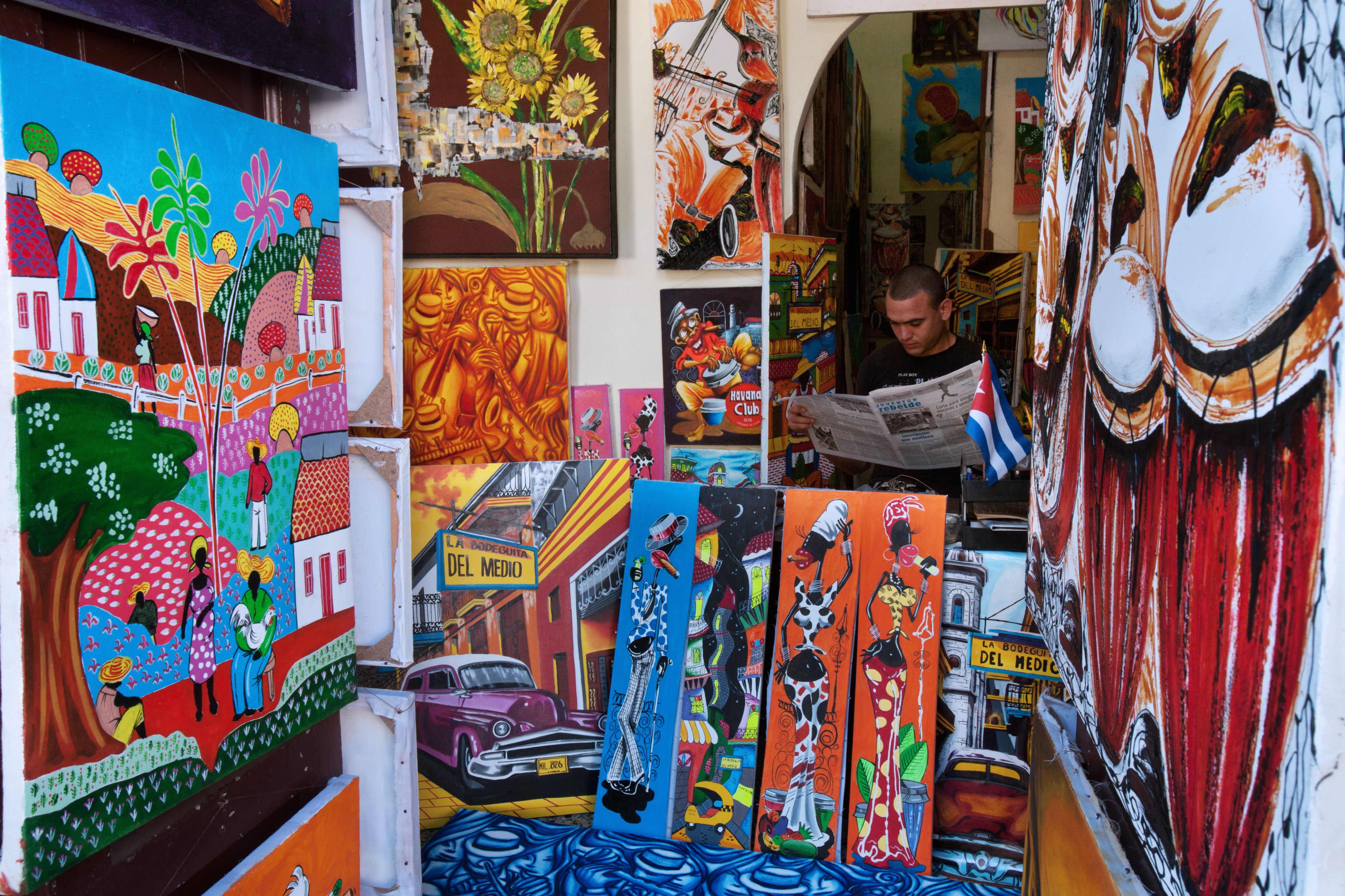 Jacinto Viamontes Rodriguez "Plaza El Cristo" Art Shop .Havana (La Habana), Cuba